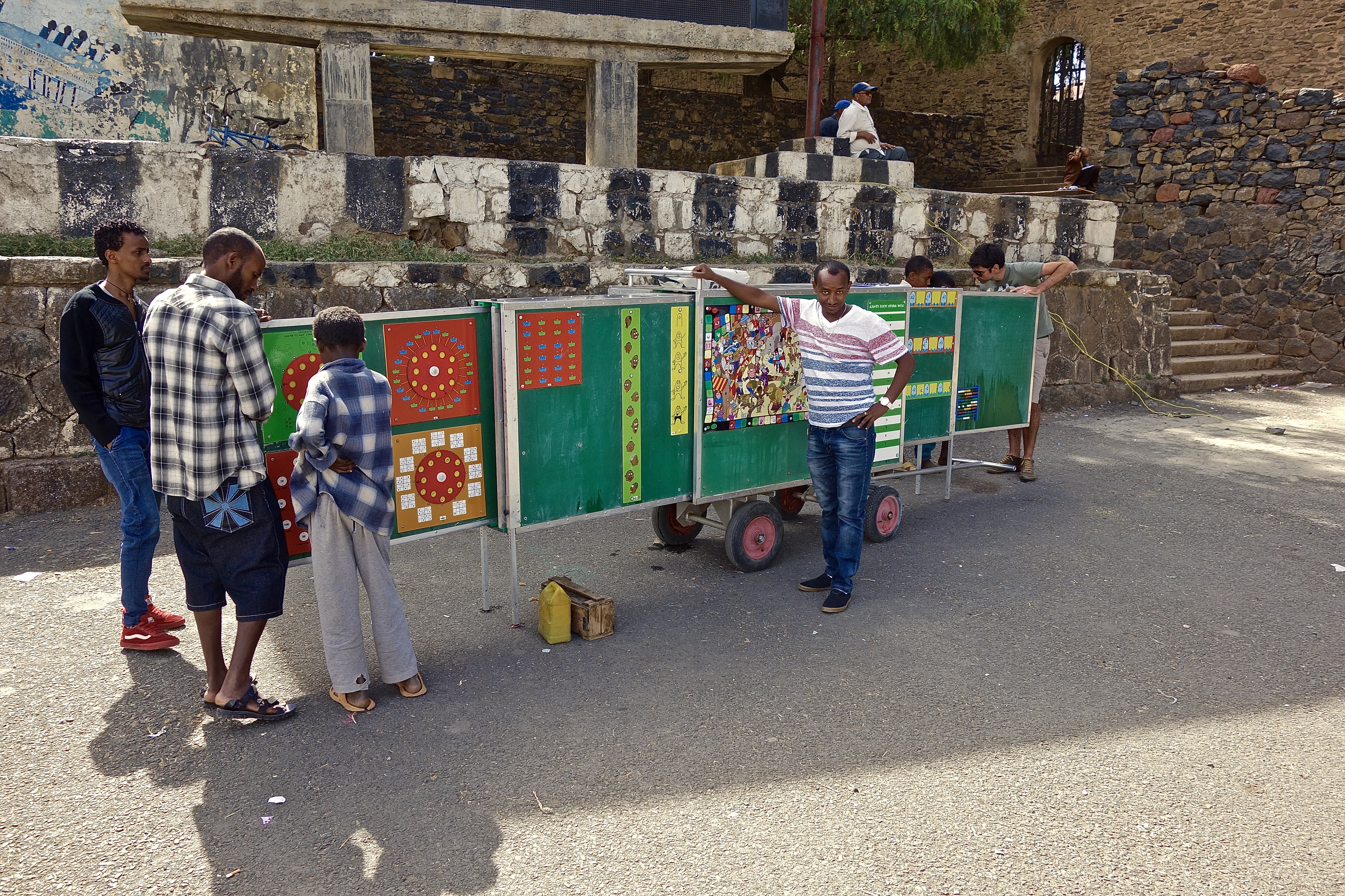 Picture of Mobile School